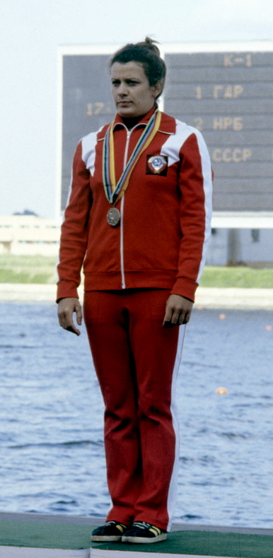 “Soviet athlete Antonina Melnikova wins bronze in single kayaking at the 1980 Olympic Games”. The 22nd Summer Olympic Games. Rowing canal in Krylatsky. Soviet athlete Antonina Melnikova wins bronze in single kayaking.